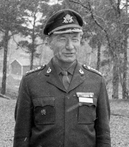 The newly appointed Inspector of the Swedish Armoured Troops, Colonel 1st Class Per Björkman on a first time visit to the regiment (Södermanland Regiment, P 10). Greeted here by the regimental commander, Colonel 1st Class Stig Colliander and a relatively abundant dizzy weather.